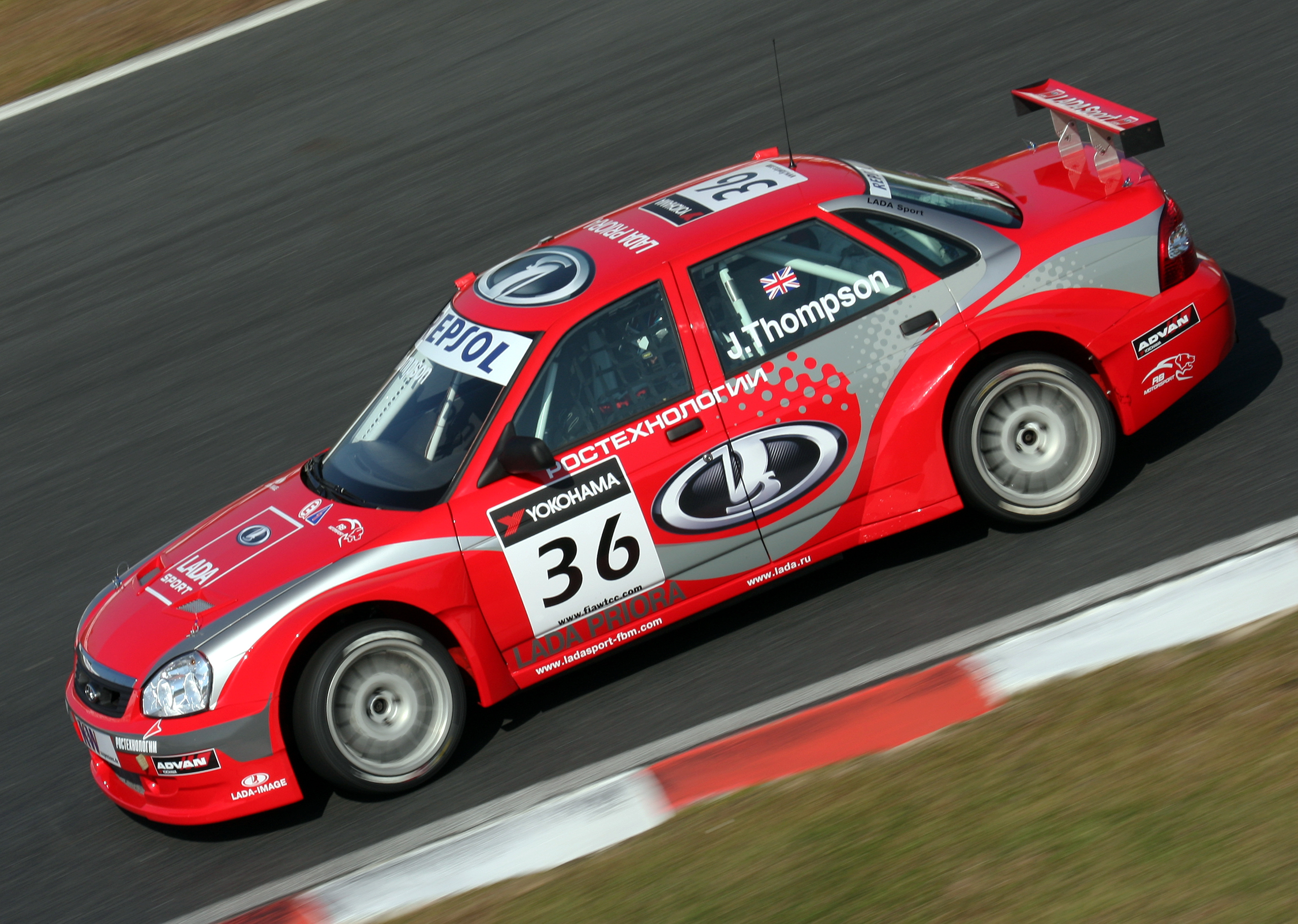 World Touring Car Championship 2009 Race of Japan: James Thompson (LADA Sport) at free practice.